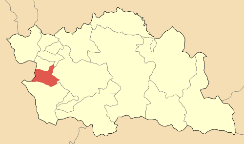 Locator map of Abdellas community (Δήμος Αβδέλλας) at Grevena perfecture, Greece.